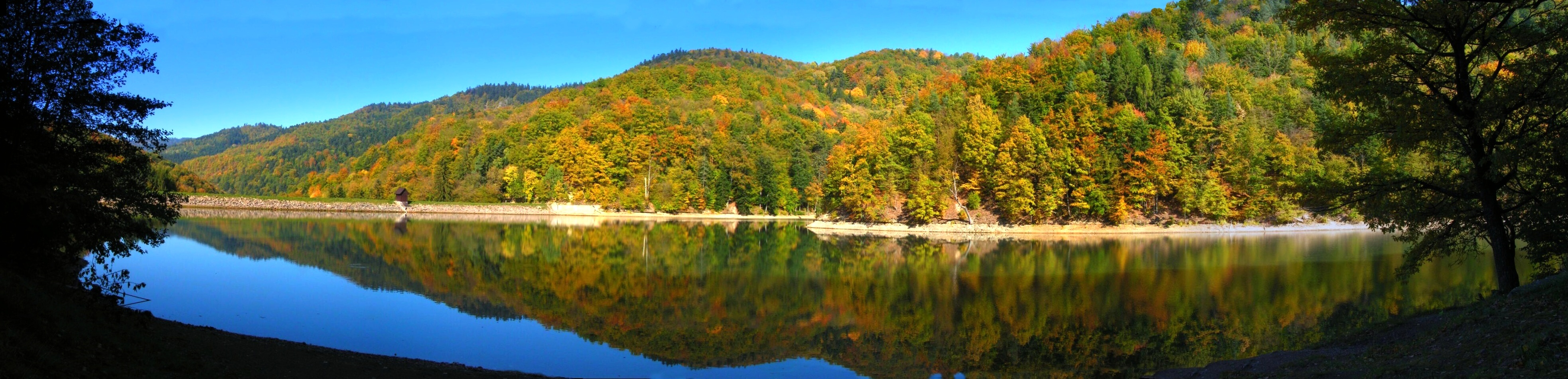 Panorama Lower Hodrusa water reservoir